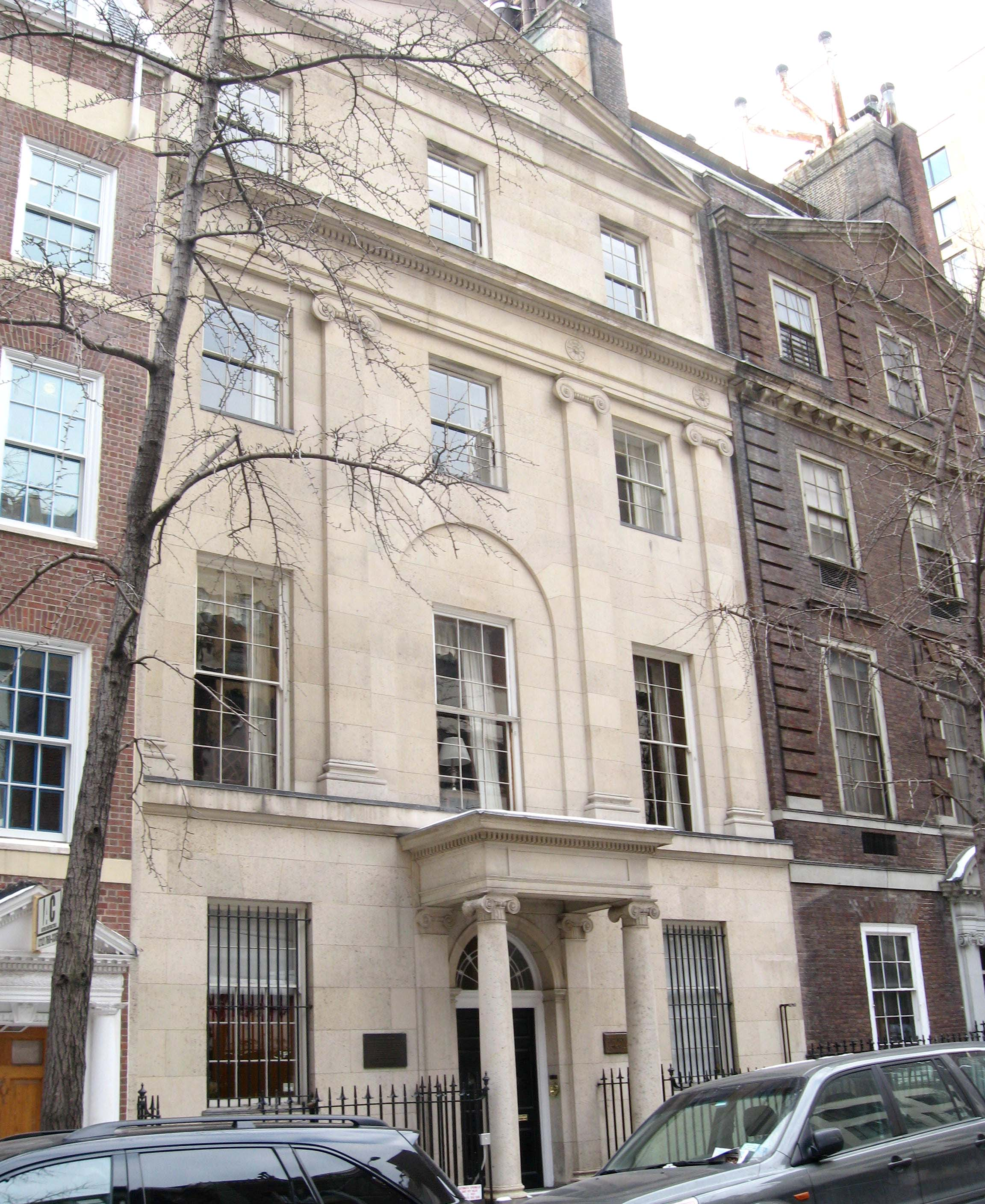 Looking southwest across East 80th Street at 130 E80, the Vincent Astor House, now Junior League House — on a cloudy afternoon. NYCLPC designation 1967.